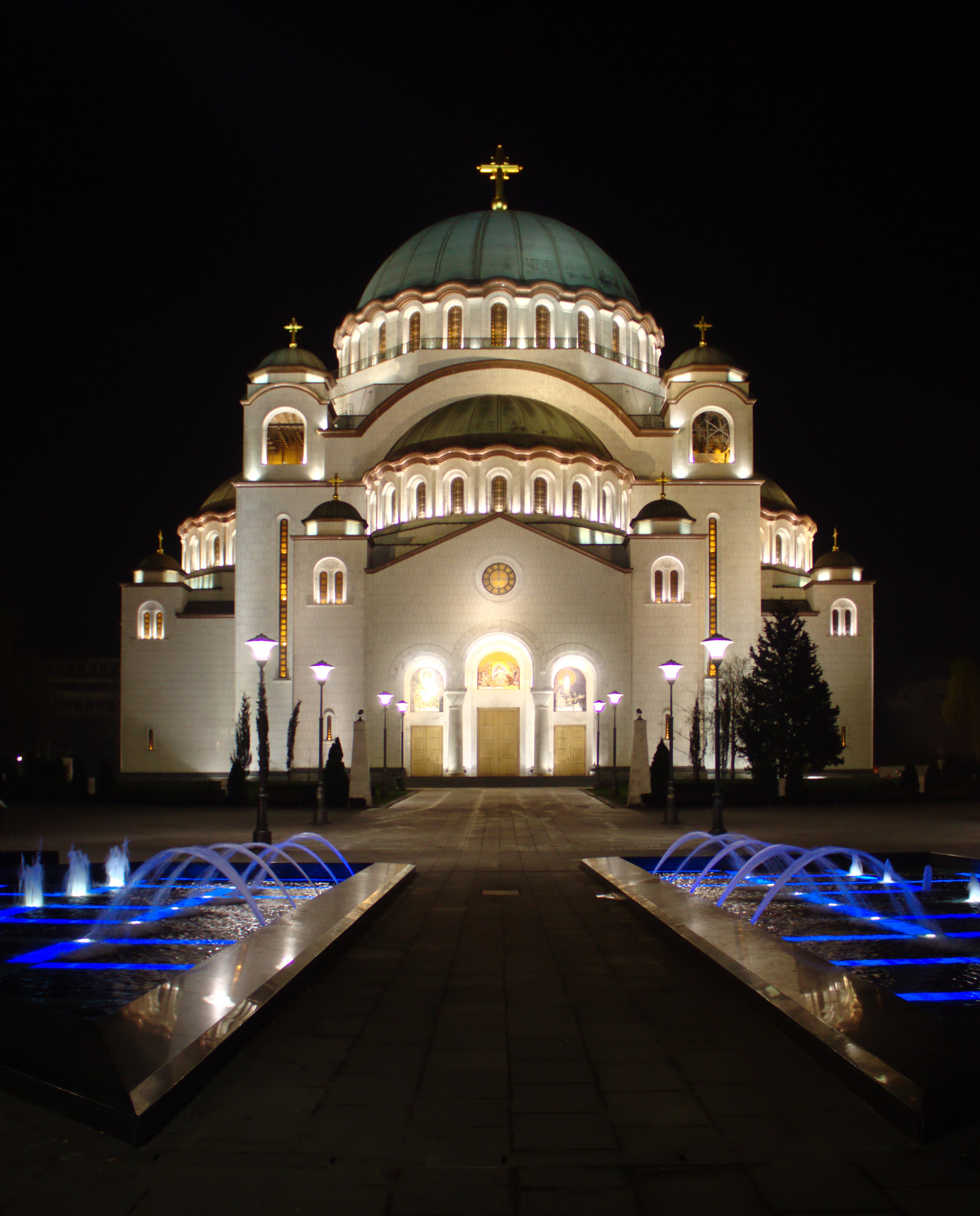 Front view of the temple of saint Sava in Belgrade at night, seen from the area of National Library of Serbia